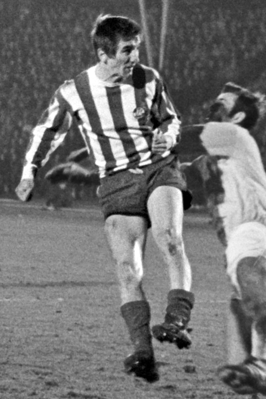 2nd round in football Cup Winners' Cup (UEFA European Cup II) 1968-69.Löhr scored the 2: 0 for Cologne; Final score FC Köln - ADO Den Haag 3: 0 (first leg 1: 0).